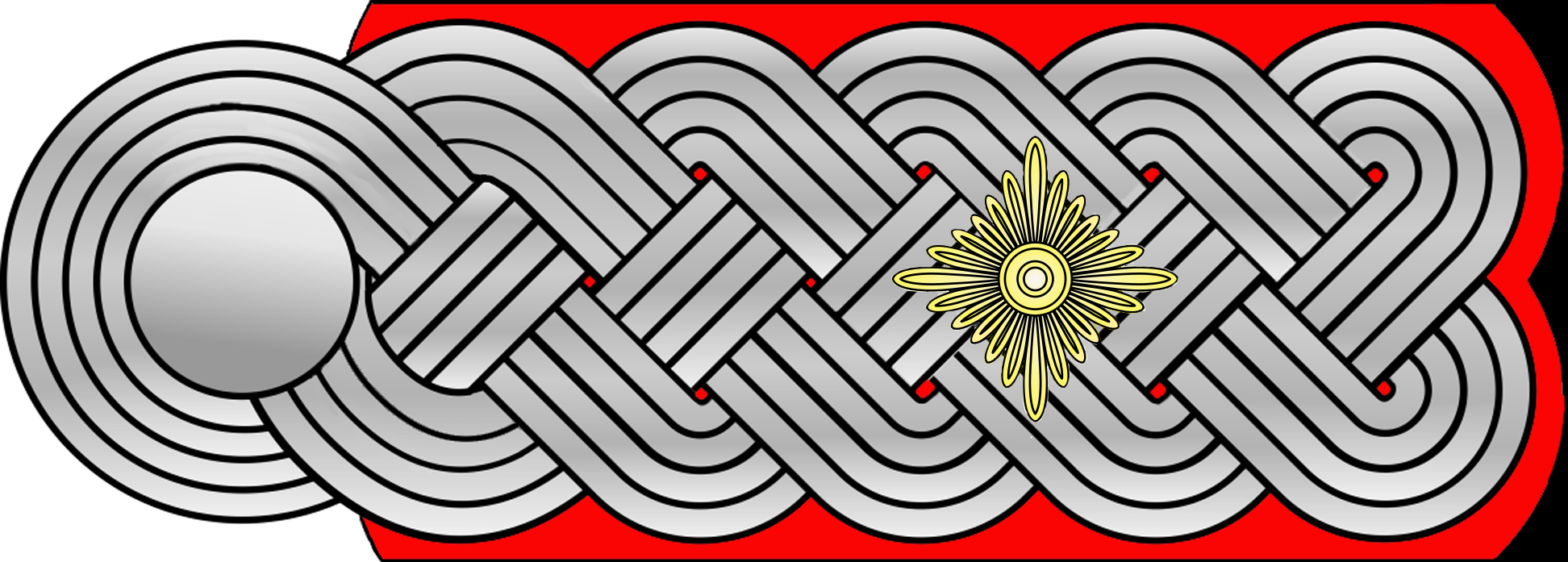 Rang insignia shoulder strap; here Waffen-SS, SS-Obersturmbannführer , corps colour “scarlet” of the Artillery corps until 1945.